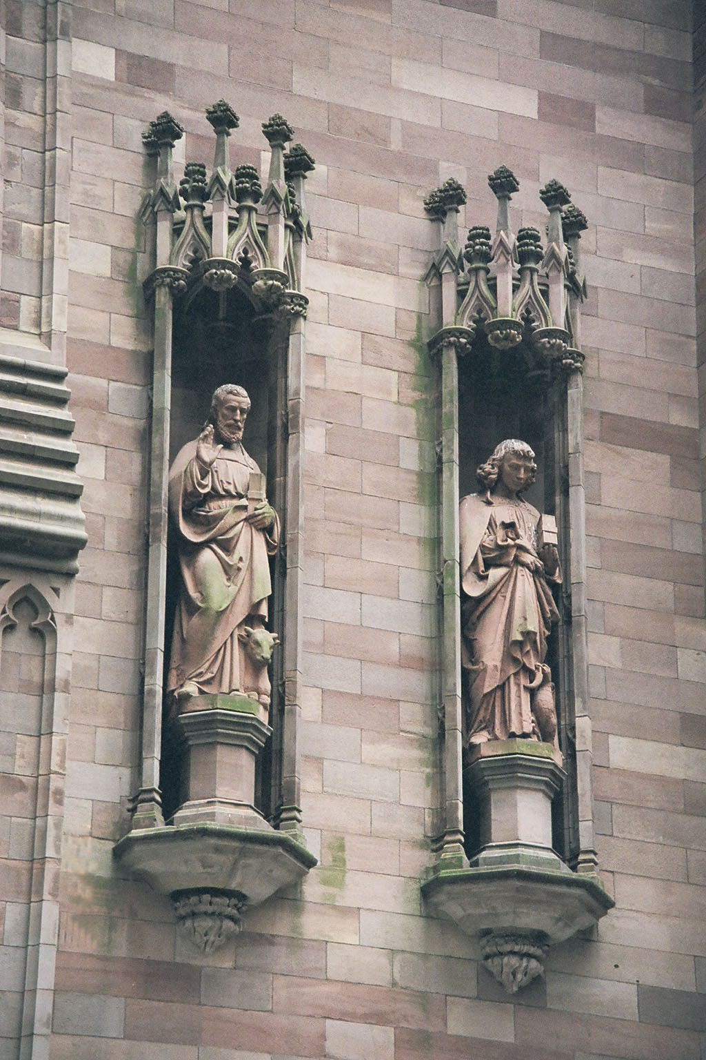 Photographed and uploaded by user:Geographer. Close-up of Trinity Church in New York, Dec 22, 2002